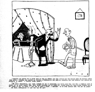 L'aparició de vinyetes d'humor era molt freqüent en el diari